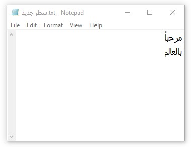 a simple "Hello world" typed in notepad